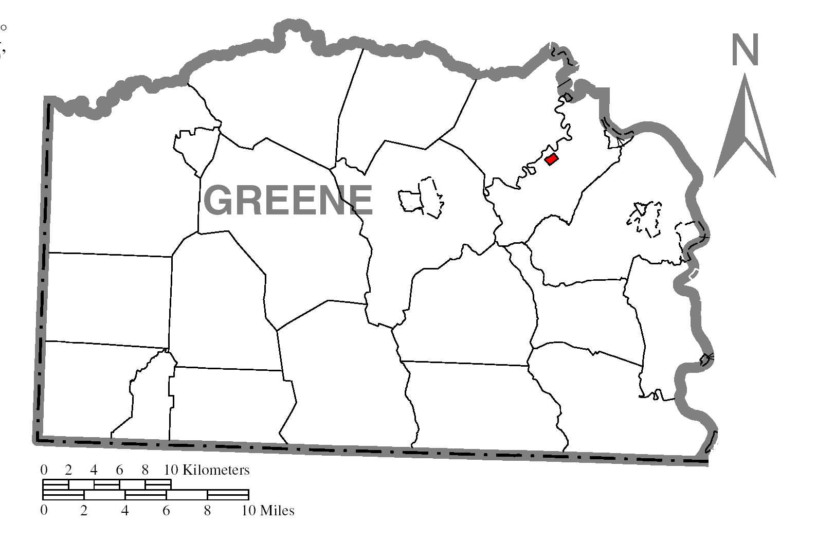 Map of Greene County higlighting Jefferson.